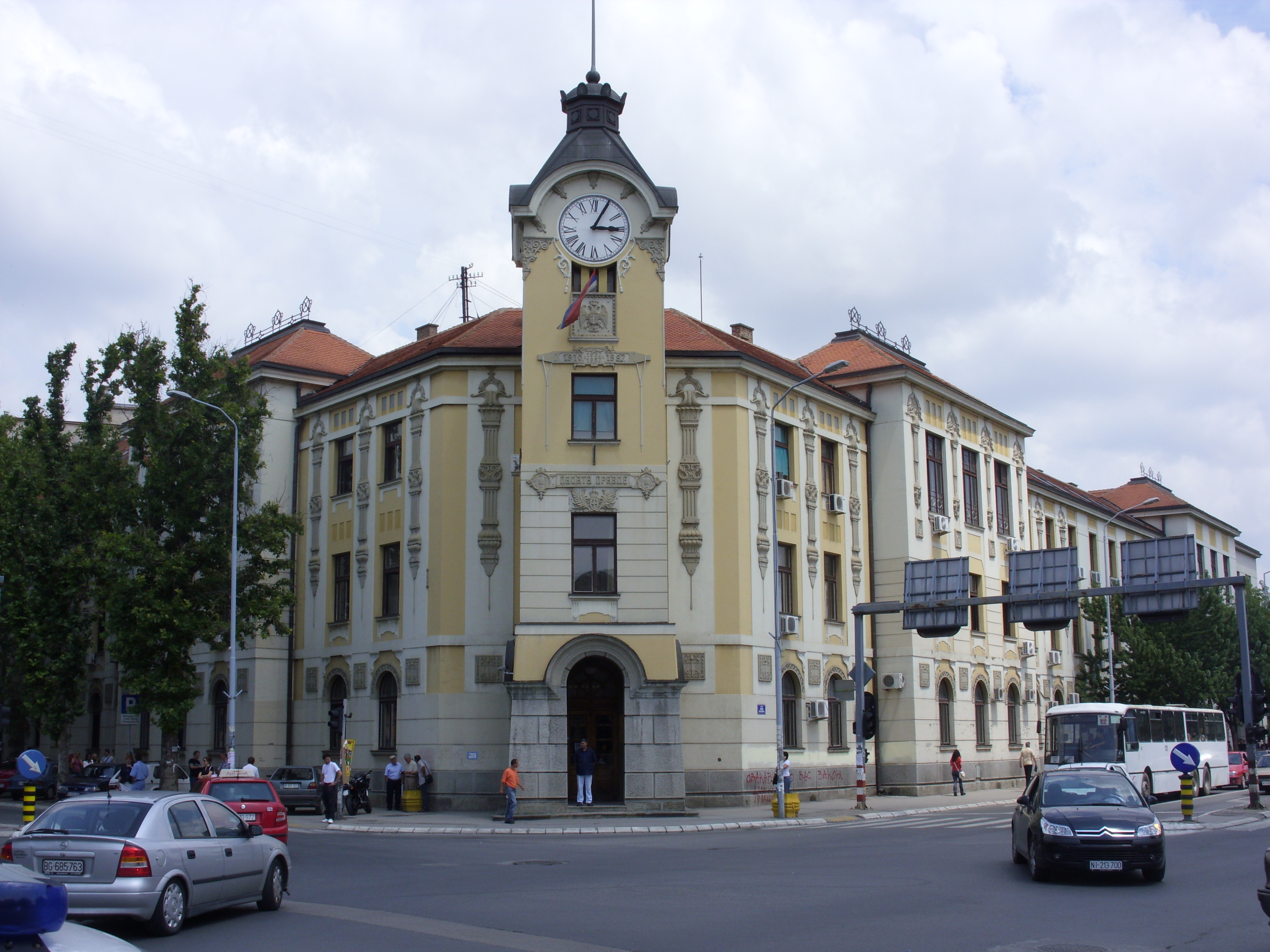 city of Nis, Serbia